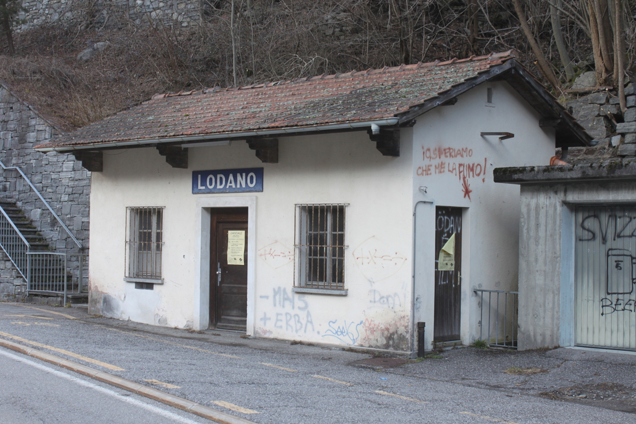 Lodano train station, in use until 1965.